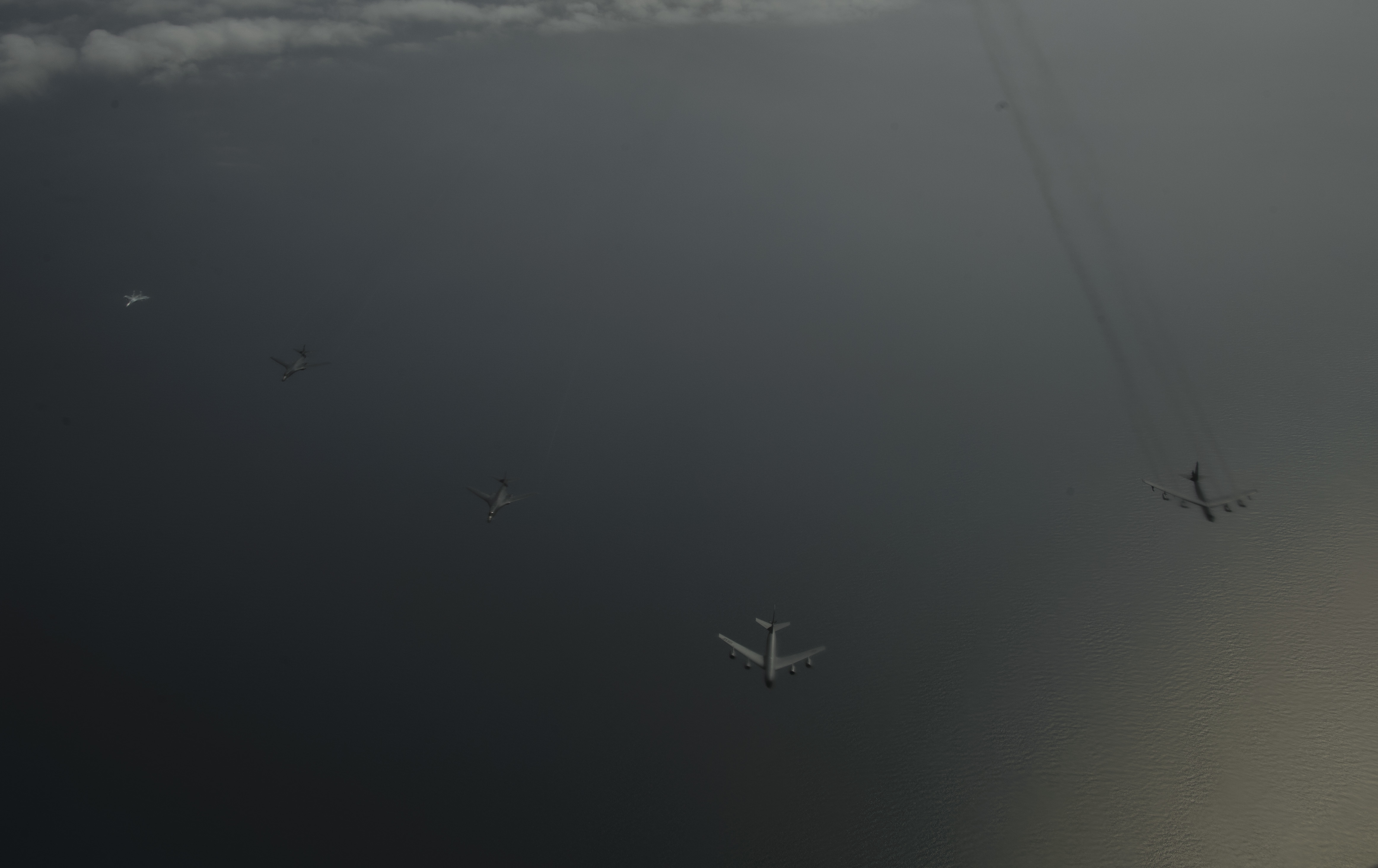 A Russian Su-27 Flanker intercepts a formation of U.S. Air Force aircraft, two B-1B Lancers, 28th Bomb Wing, KC-135R Stratotanker, 459th Air Refueling Squadron and B-52H Stratofortress, 2nd Bomb Wing, while participating in BALTOPS over the Baltic Sea, June 9, 2017. The exercise is designed to enhance flexibility and interoperability, to strengthen combined response capabilities, as well as demonstrate resolve among Allied and Partner Nations' forces to ensure stability in, and if necessary defend, the Baltic Sea region. Flight intercepts are regular occurrences, and the vast majority are conducted in a safe and professional manner.(U.S. Air Force photo by Staff Sgt. Jonathan Snyder)